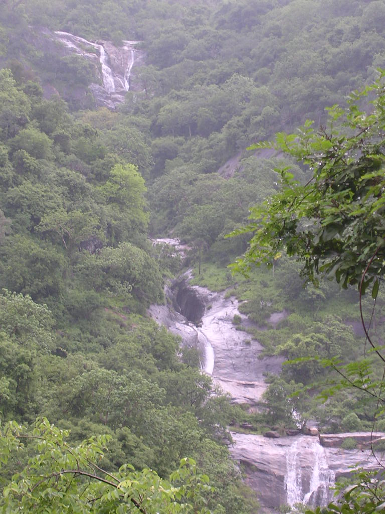 A Waterfall in Palani hills near Kodaikanal